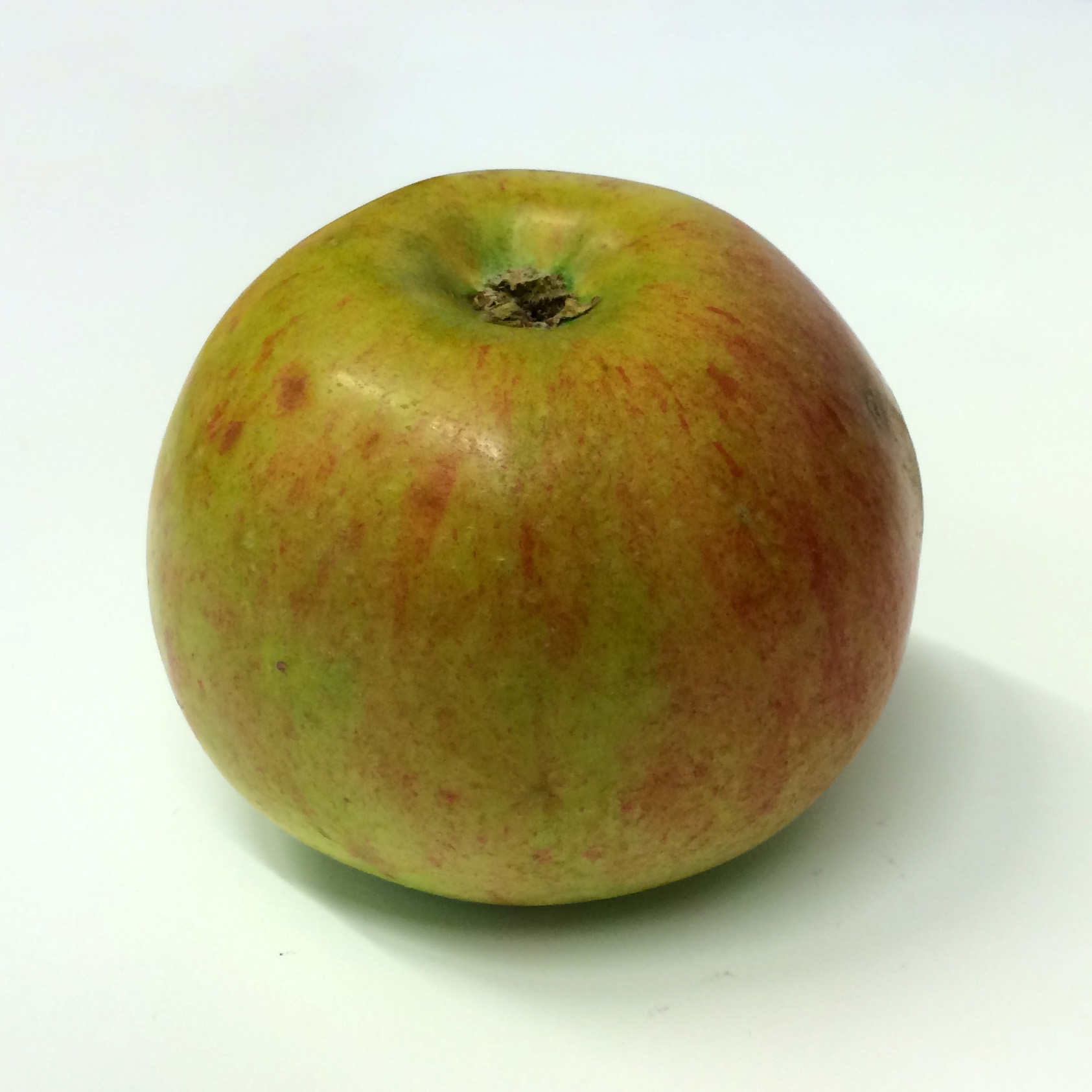 Apple of the cultivar Peasgood Nonsuch, photographed in conjunction with the Apple Festival at Nordiska museet, Stockholm, Sweden in September 2014.